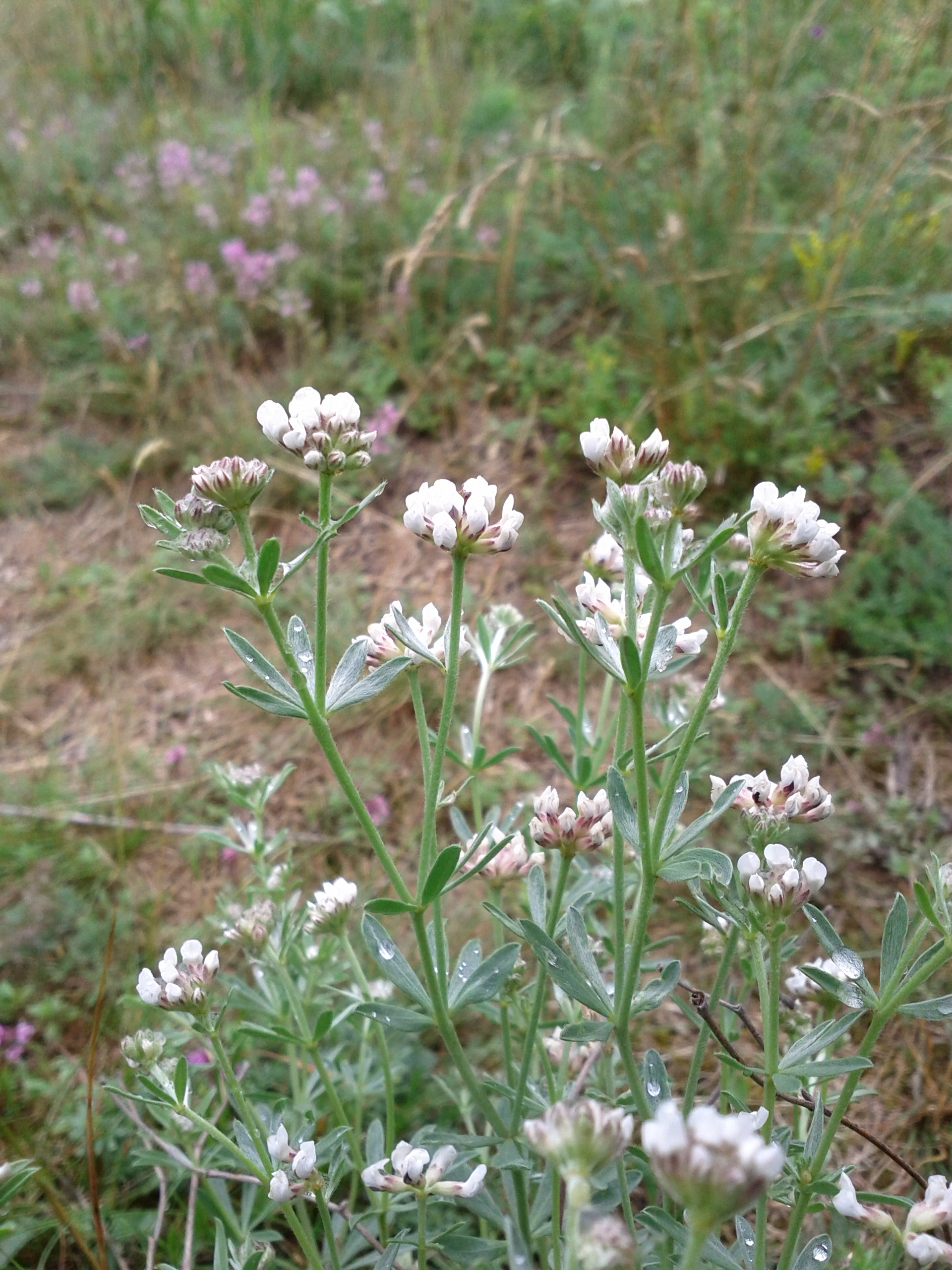 Inflorescence Taxonym: Dorycnium germanicum ss Fischer et al. EfÖLS 2008 ISBN 978-3-85474-187-9 Location: Alte Schanzen, object XII, Floridsdorf, Vienna - ca. 225 m a.s.l. Habitat: dry grassland